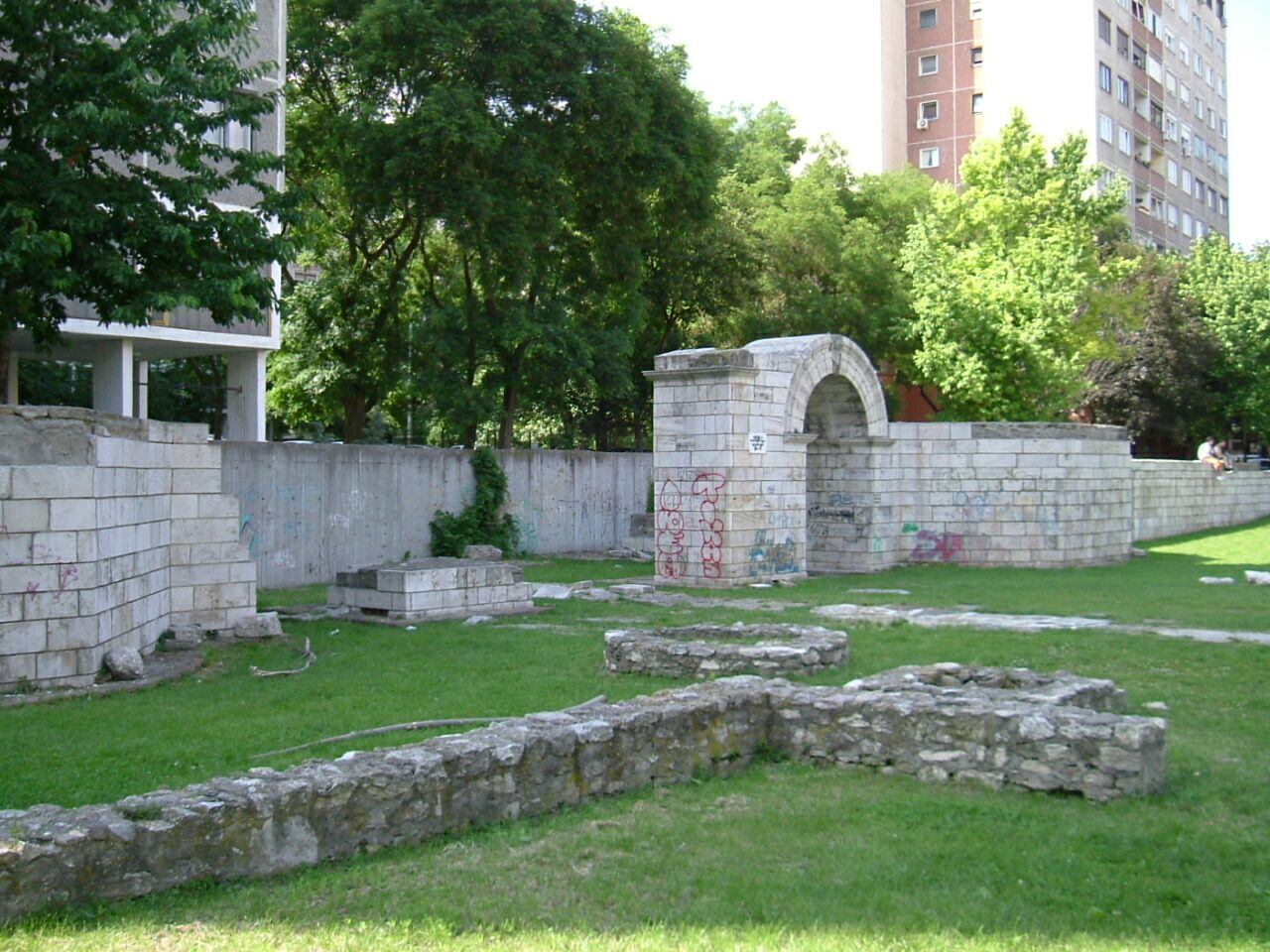 Aquincum, Budapest, Hungary: Reconstructed Gate on the Camp Walls